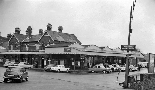 Bournemouth West Station, exterior.. View NW, showing road approach and entrance to the terminus. See SZ0791 : Bournemouth West Station for details